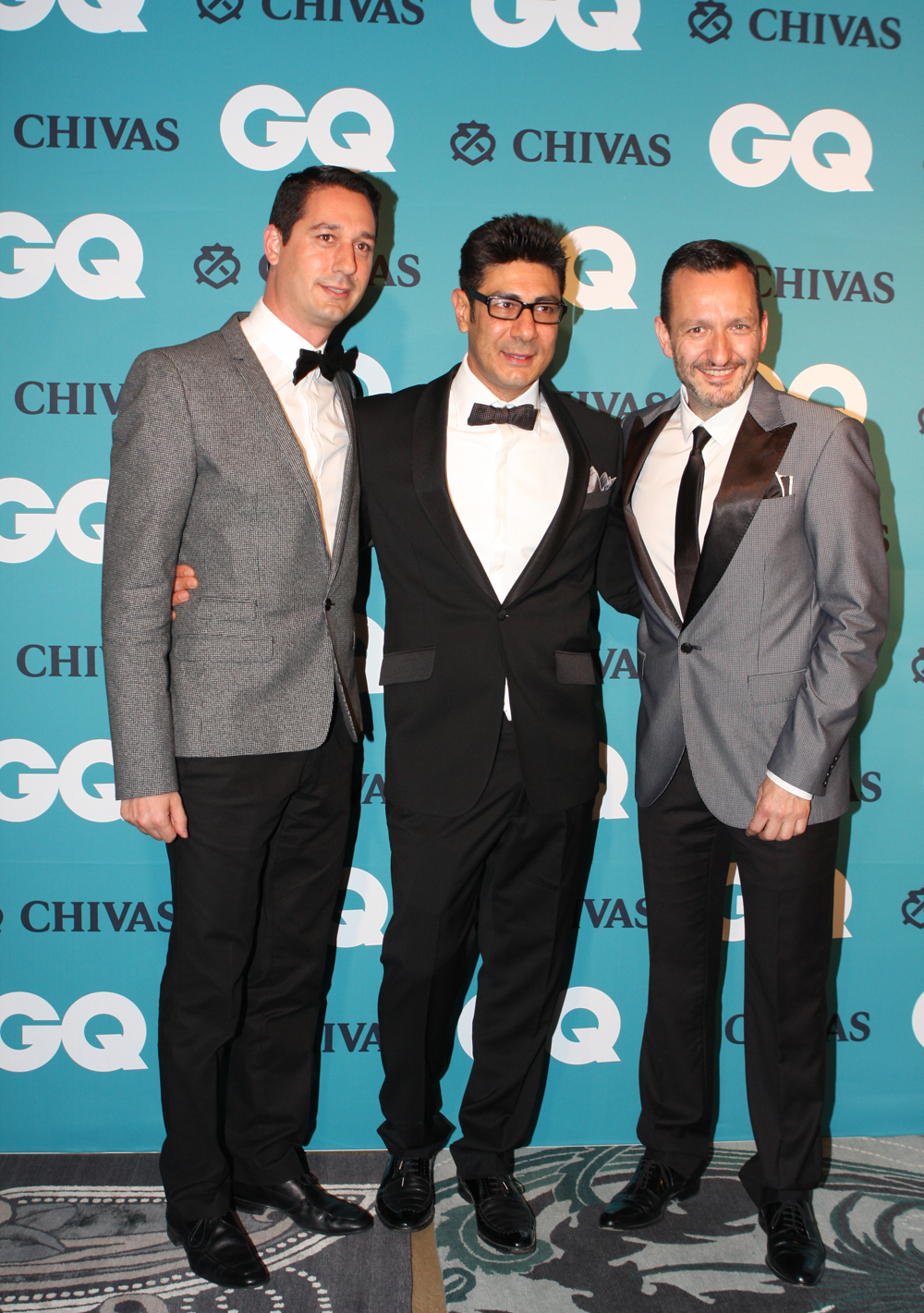 Left: Unidentified. Center: Joe Farage. Right Arthur Galan at GQ Men of the Year Awards 2012